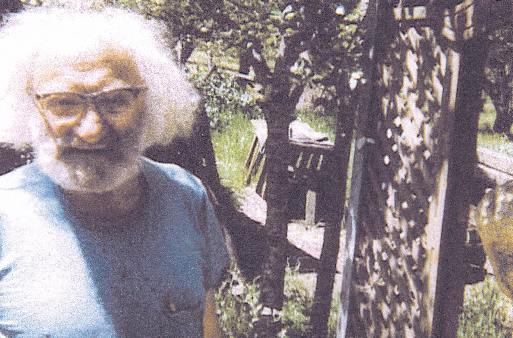 Photo of artist and WPA muralist Barnard Zakheim